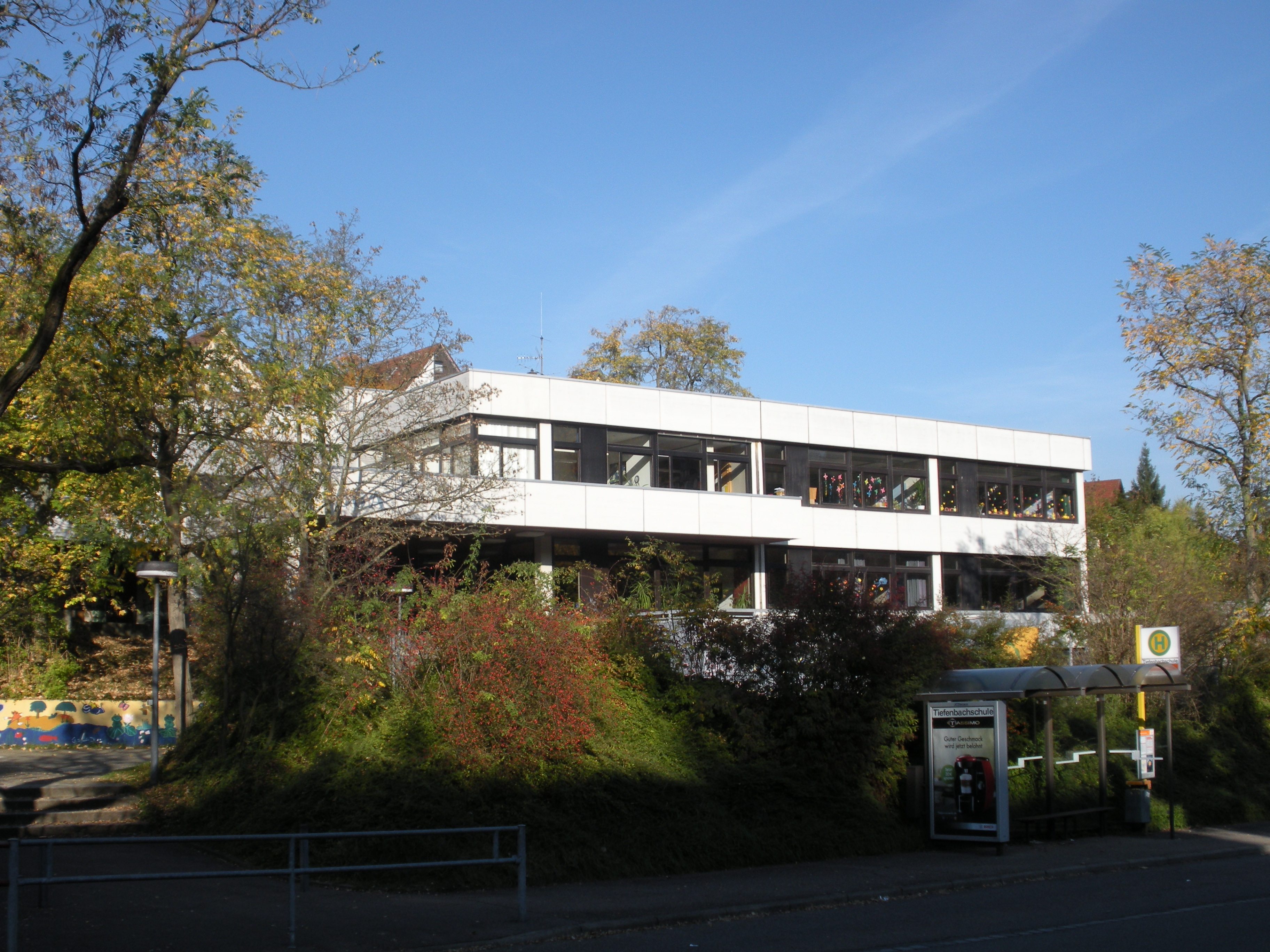 Primary School (Tiefenbachschule) in Stuttgart-Rohracker